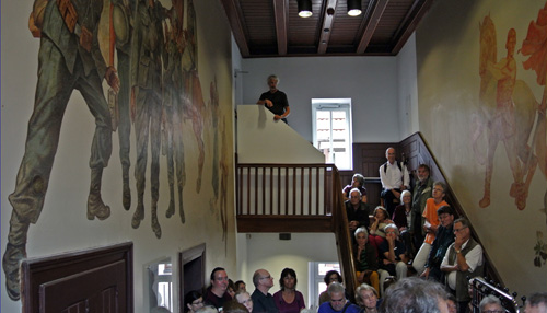 Group tour of the city hall in Waldkirch on 8 September 2013, organized by the "Work Group on Resistance and Labor History" in cooperation with the "Ideas Workshop on Waldkirch in the Nazi Era". This event took place in the framework of the German iteration of the "European Heritage Days", which took place in 2013 with the theme "Day of Inconvenient Monuments". Visible on the left and right are the murals "The New Era" (1942) and "Ready to Fight for Land and Family" (1941) by Josef Schröder-Schoenenberg.